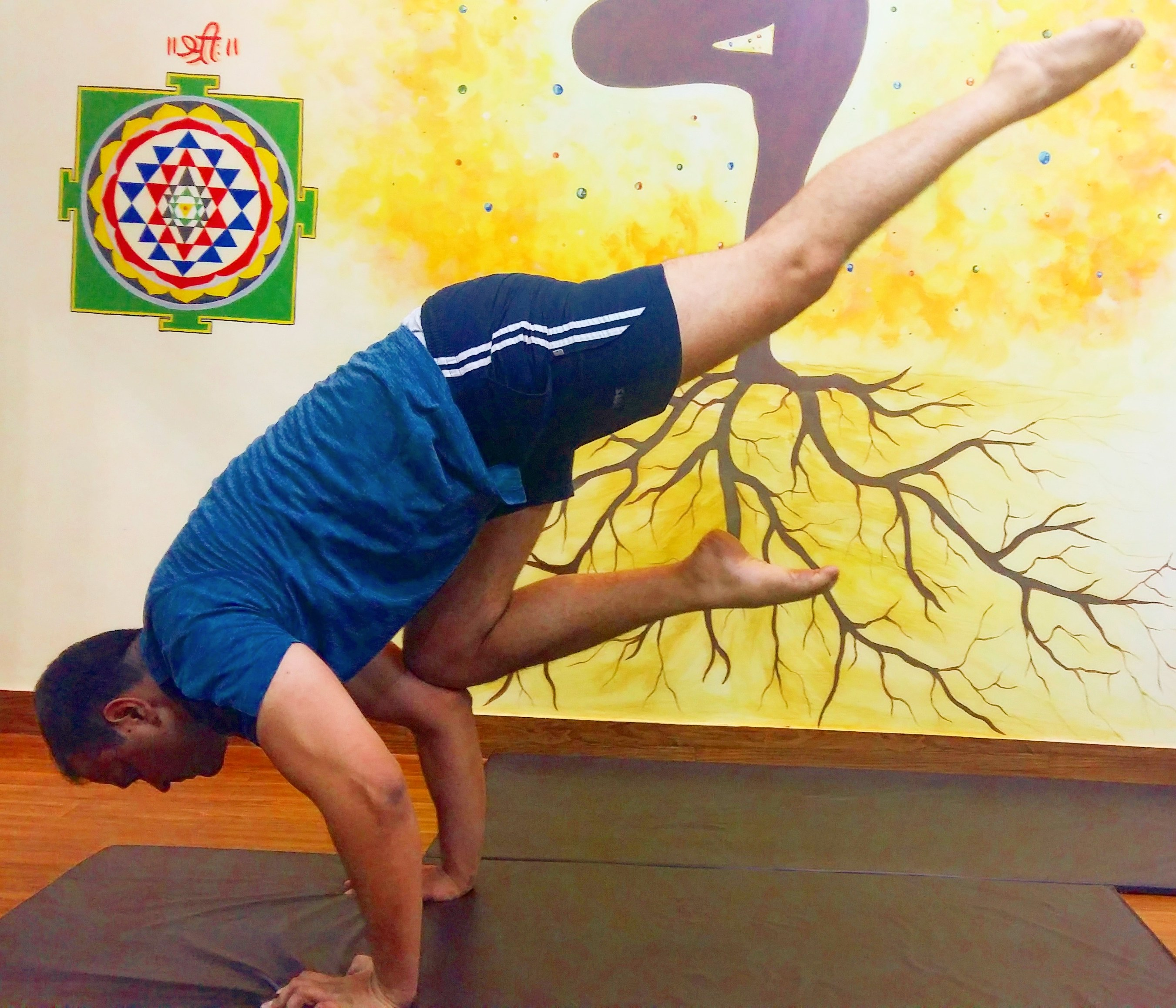 Eka-Pada Kakasana (one legged crow pose)